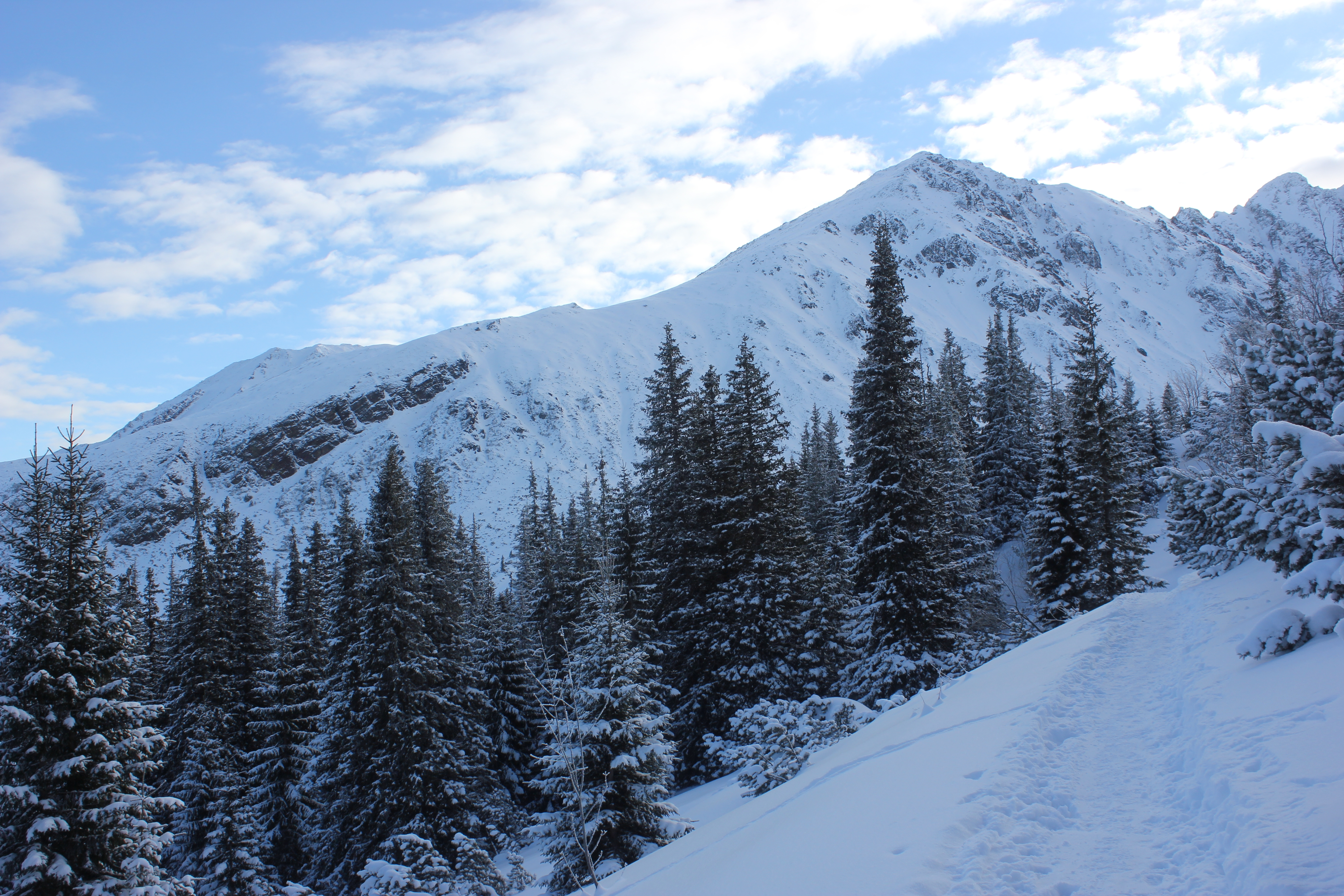 Żółta Turnia